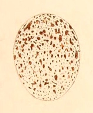 « Carduelis tristis » = Carduelis tristis (American Goldfinch) - egg